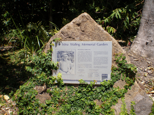 Information sign at entrance to Buderim's Edna Walling Gardens, Walling having lived in Buderim for some years.